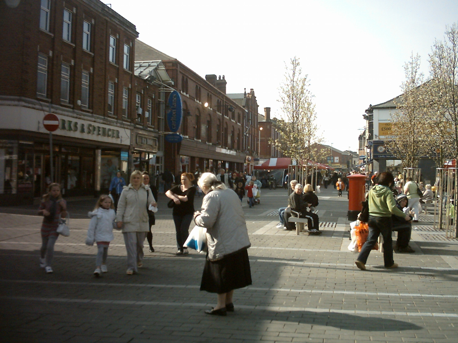 Carlton Street, Castleford, West Yorkshire, UK